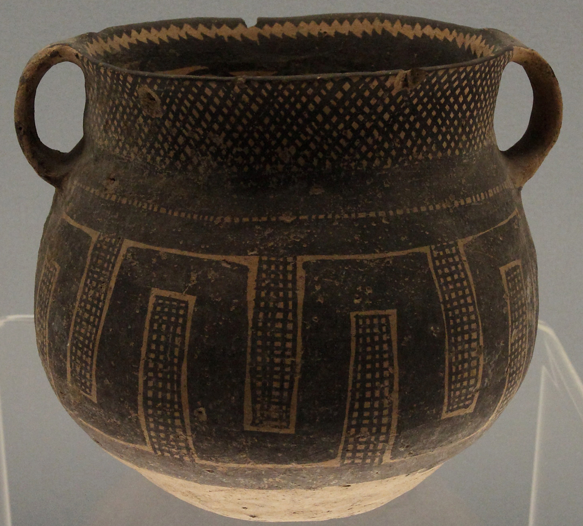 Painted pottery jar from the Machang type of Majiayao culture, c 2200-2000 B.C. On display at the Shanghai Museum.